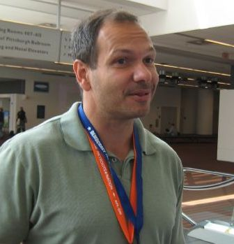 Mike Stark gesturing with his ice